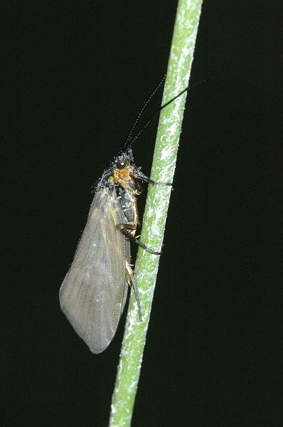 Picture taken in Commanster, Belgian High Ardennes . Species: Silo nigricornis - Misidentified: this is unmatured Oligotricha striata!